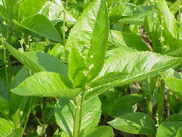 Species: Mercurialis ovata Family: Euphorbiaceae Image No. 4